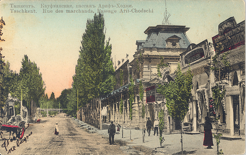 Tashkent. Kaufman avenue, Arif Khodzha passage